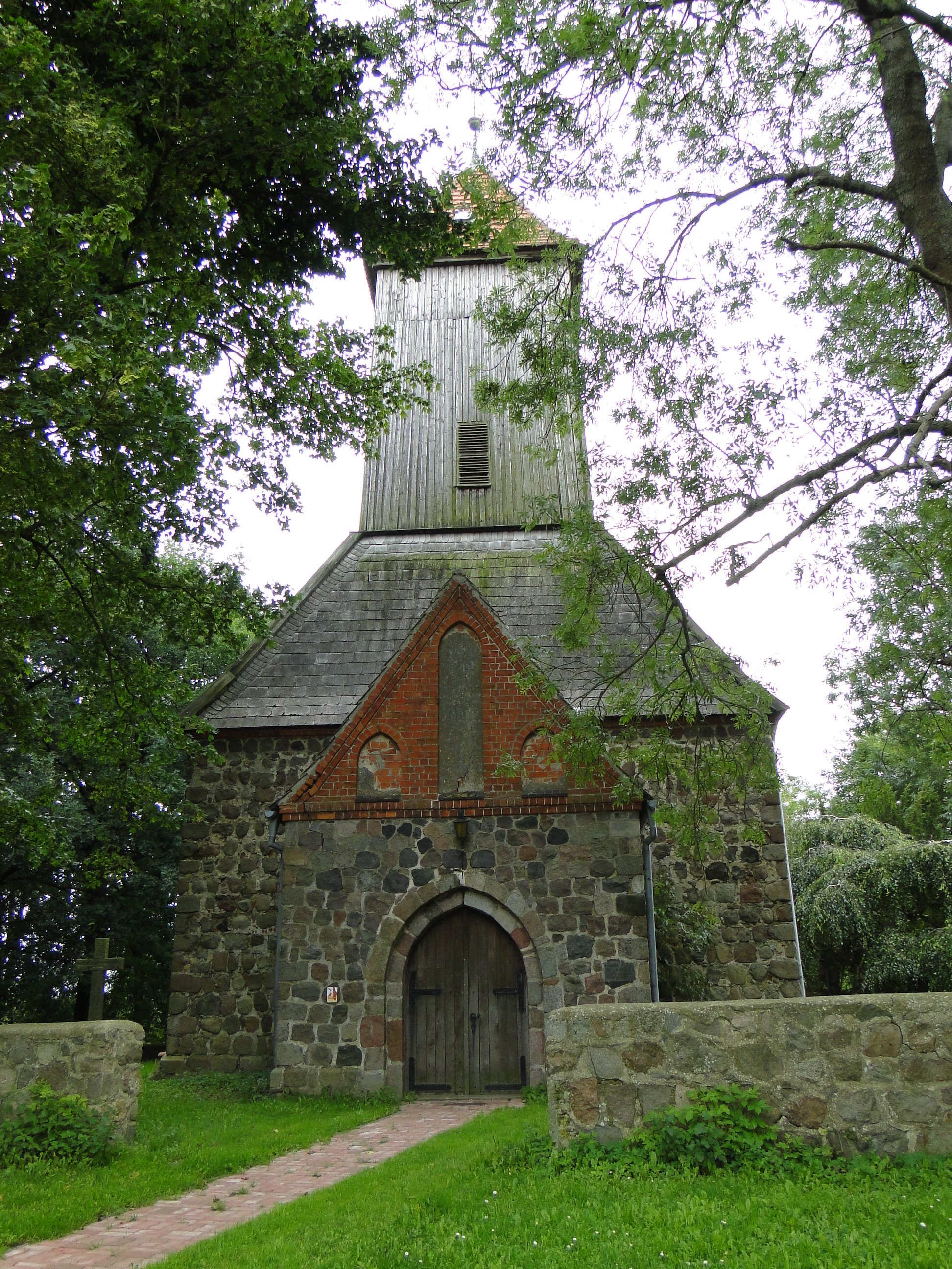 Church in Kublank, district Mecklenburg-Strelitz, Mecklenburg-Vorpommern, Germany